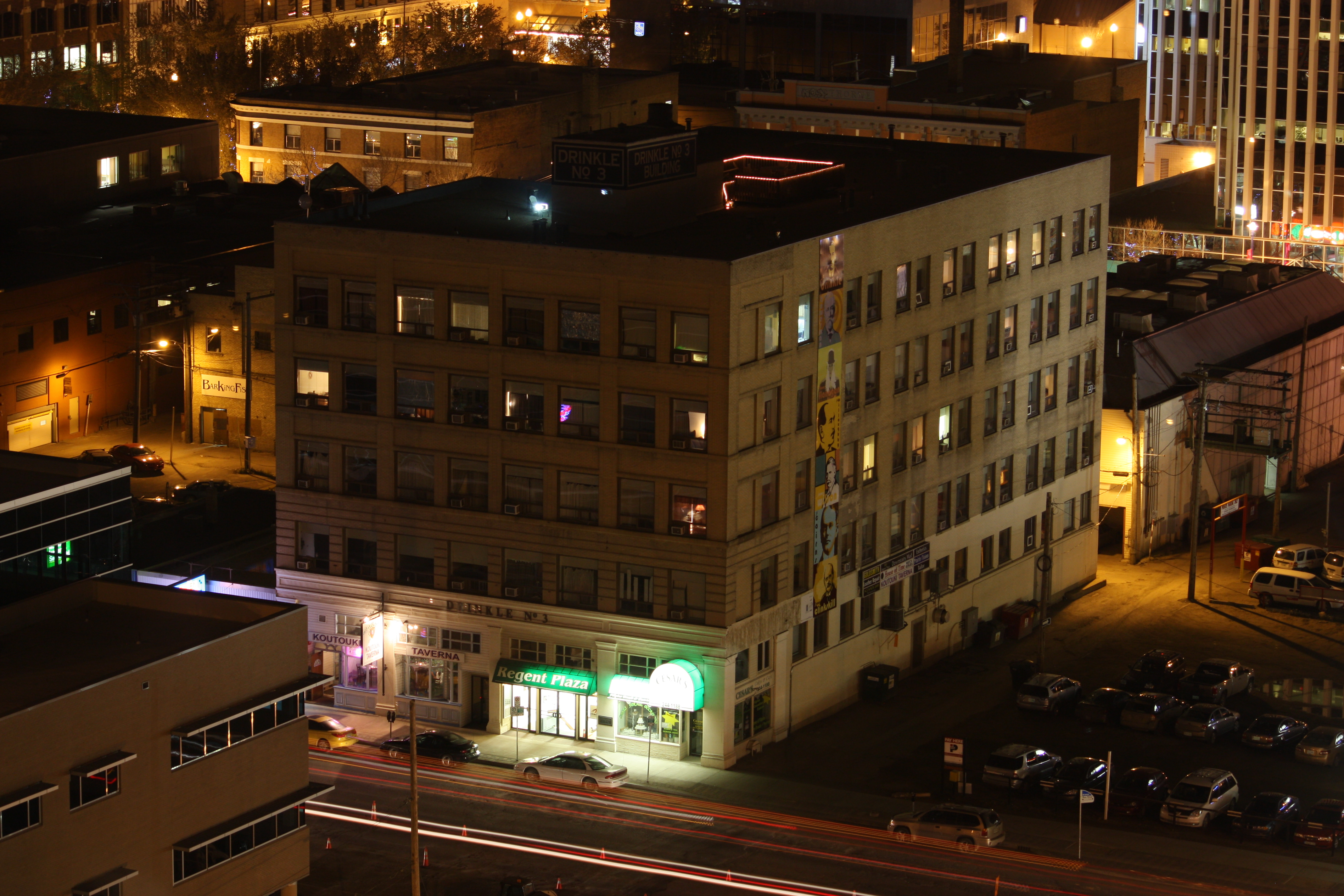 Drinkle No. 3 building in Saskatoon, Saskatchewan, Canada on October 2009.